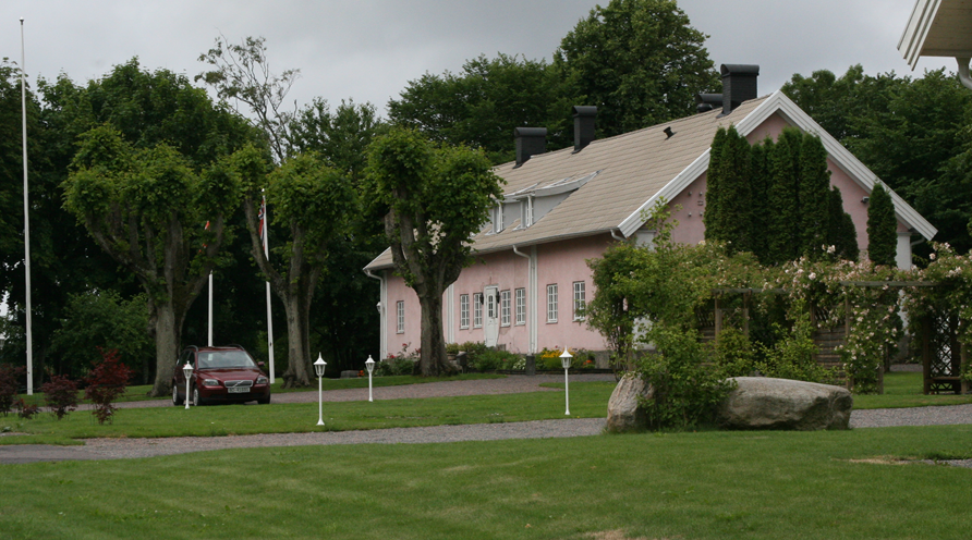 The administration building of the Rosicrucian Order A.M.O.R.C. in Scandinavia